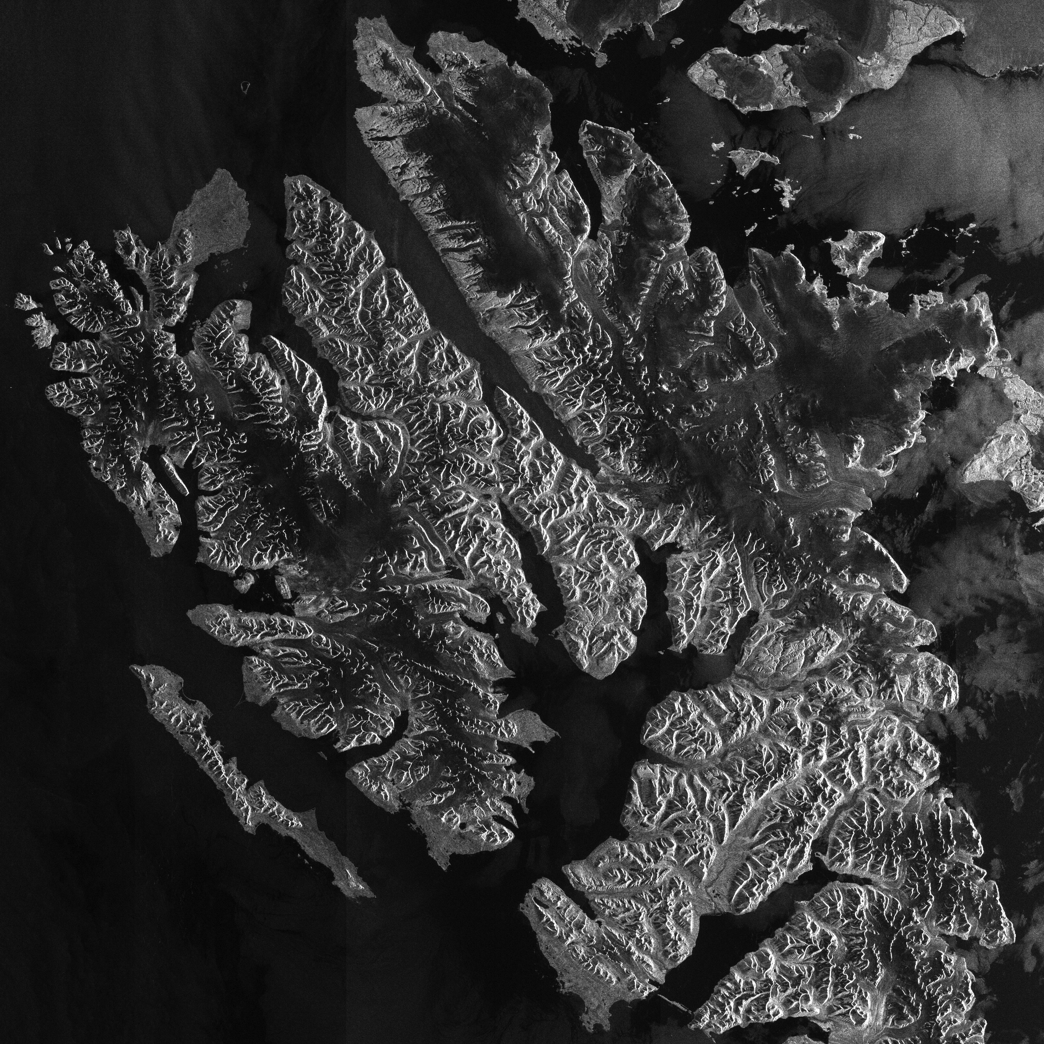 Spitsbergen, Norway’s largest island, is pictured in this image, acquired on 6 September 2011 by Envisat’s Advanced Synthetic Aperture Radar (ASAR). Bordered by the Arctic Ocean to its north and the Greenland Sea to its west, Spitsbergen is the largest and only permanently populated island of the Svalbard archipelago.